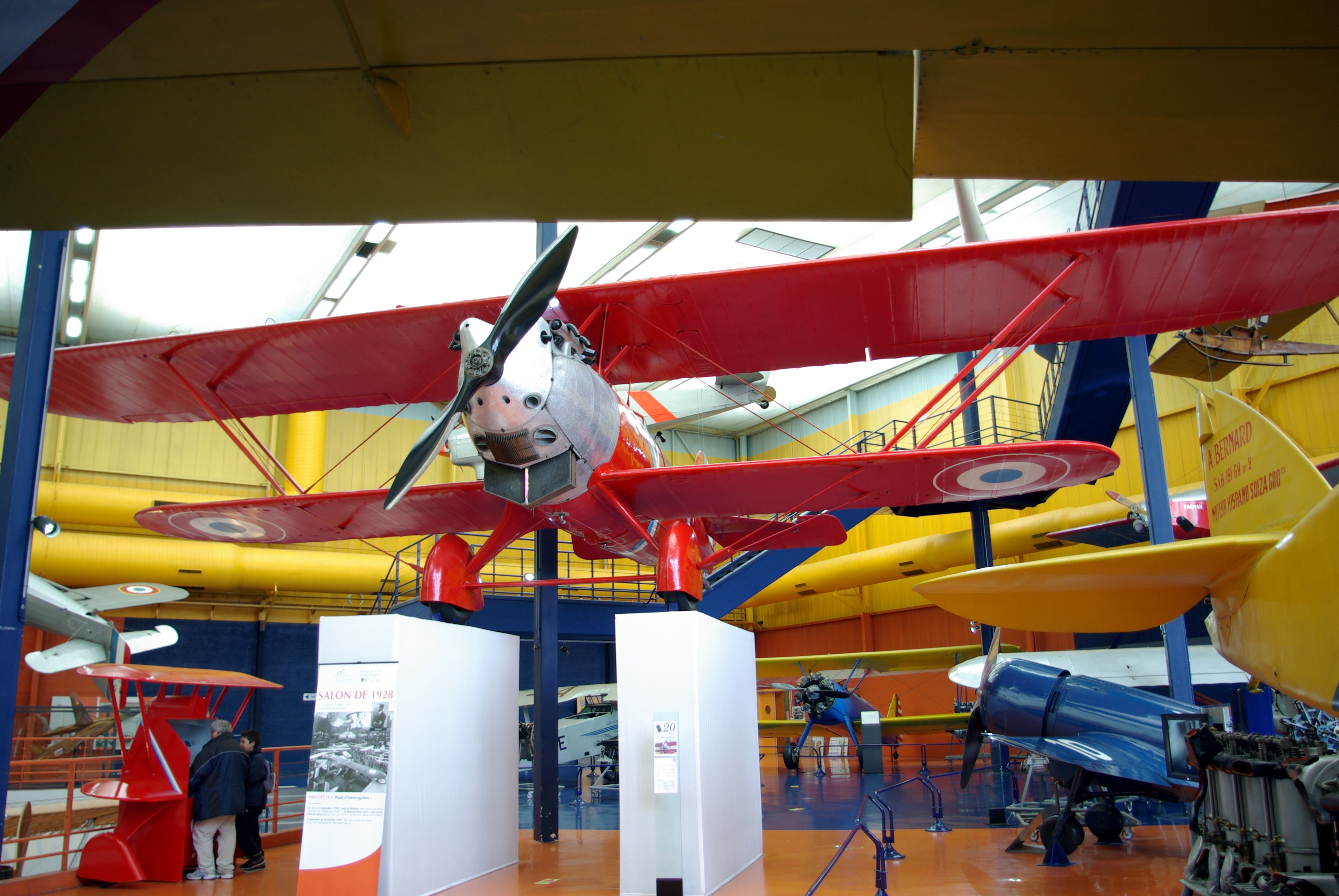 The Breguet 19 "Point d'interrogation" exhibited at the Air & Space Museum at Le Bourget, France.